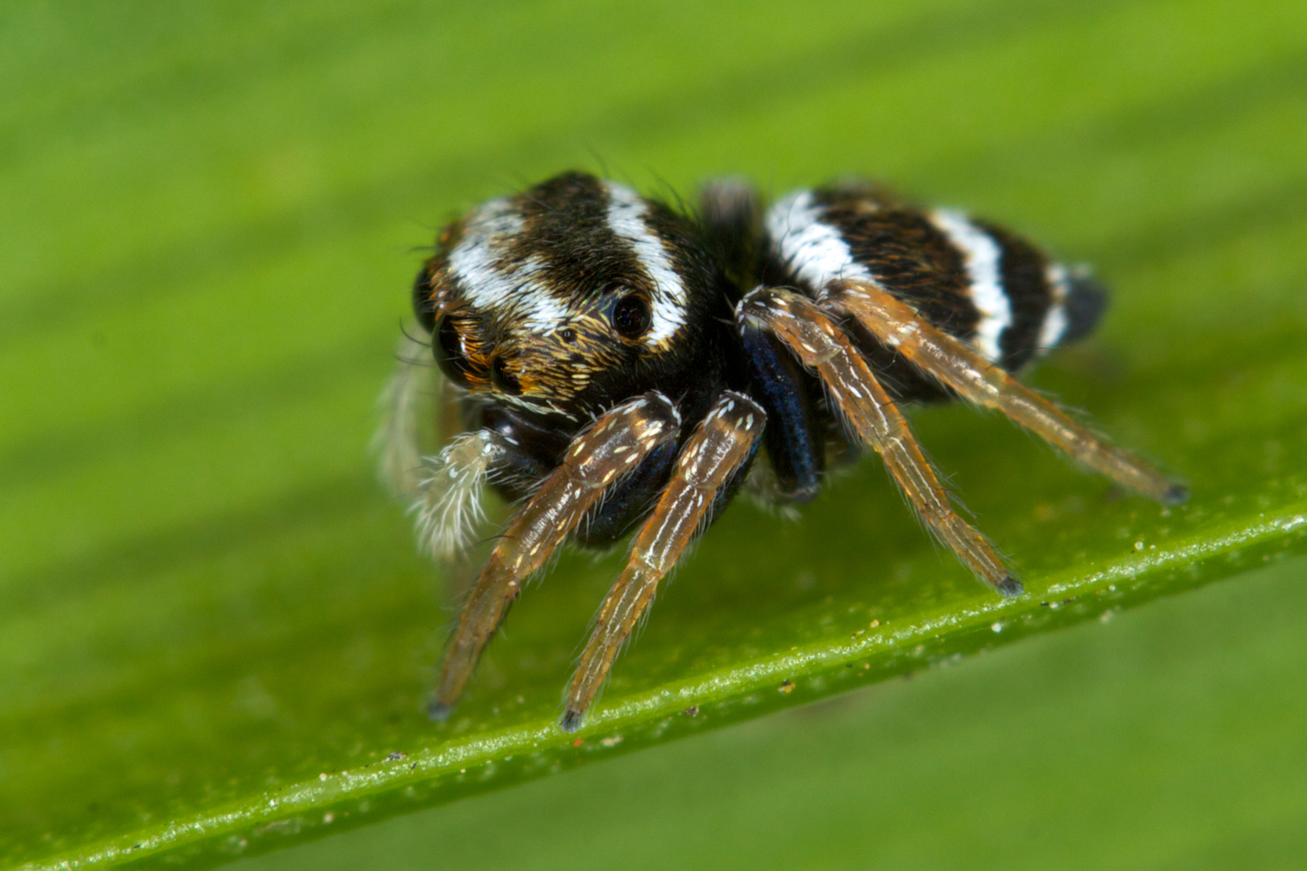 Bleeker's Jumping Spider